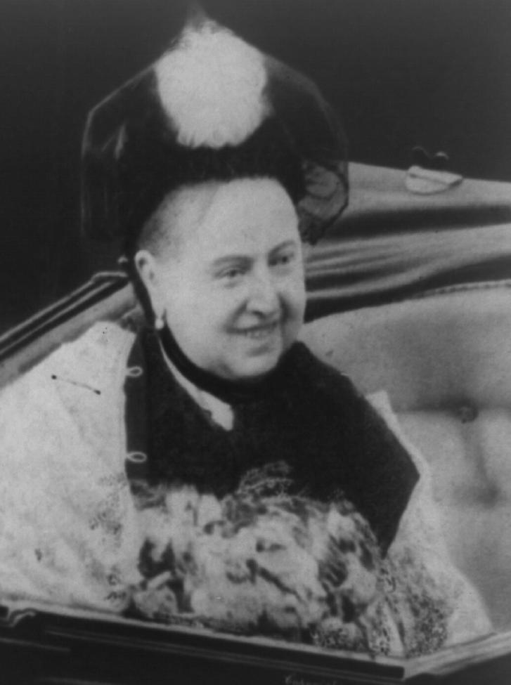 Cropped detail from a Victorian carte de visite depicting Queen Victoria, published in 1887 by Charles Knight with the title "Her Majesty's Gracious Smile"